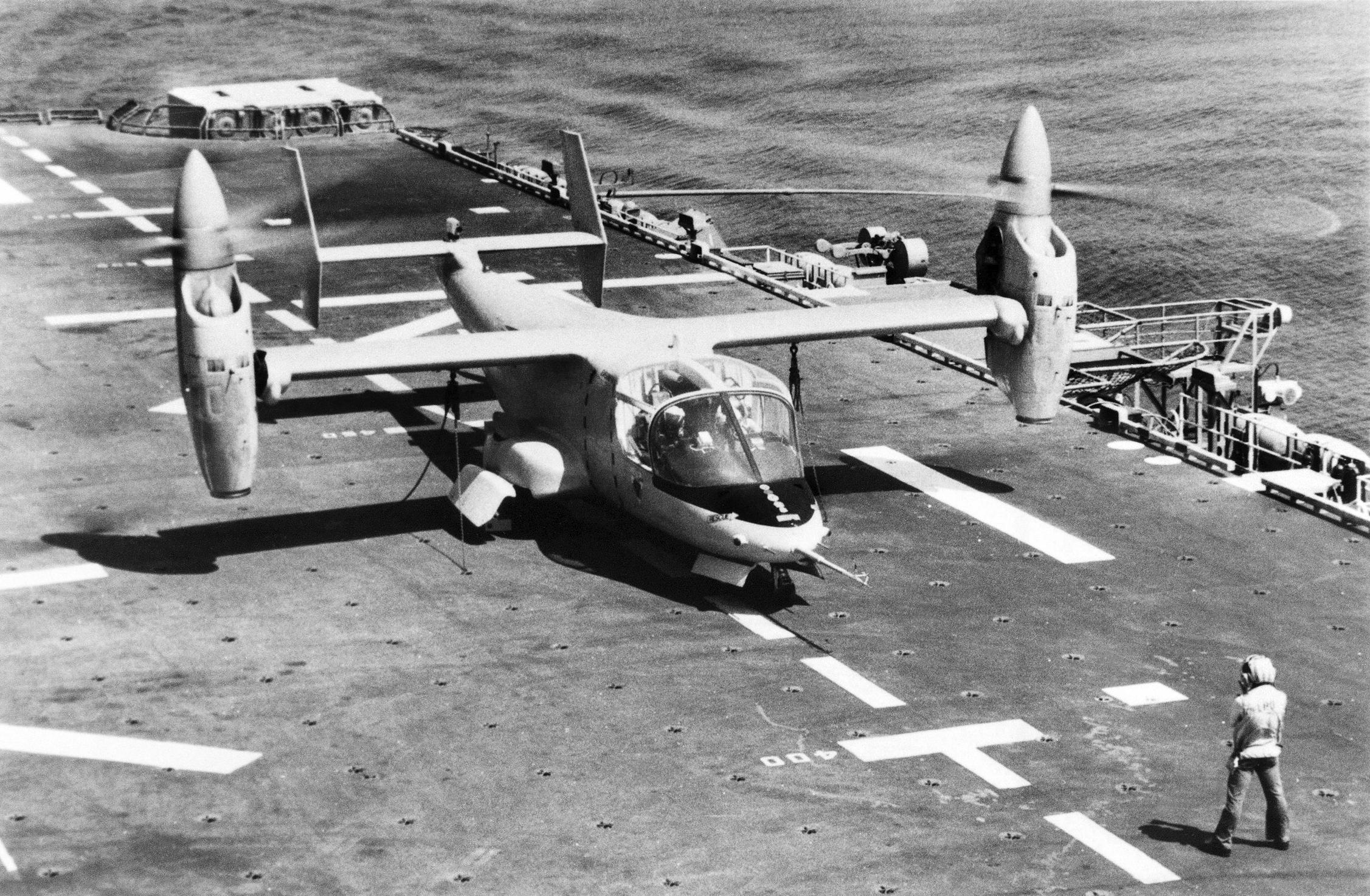 A Bell XV-15 prepares for take-off during trials aboard the amphibious assault ship USS Tripoli (LPH-10), on 1 August 1983.